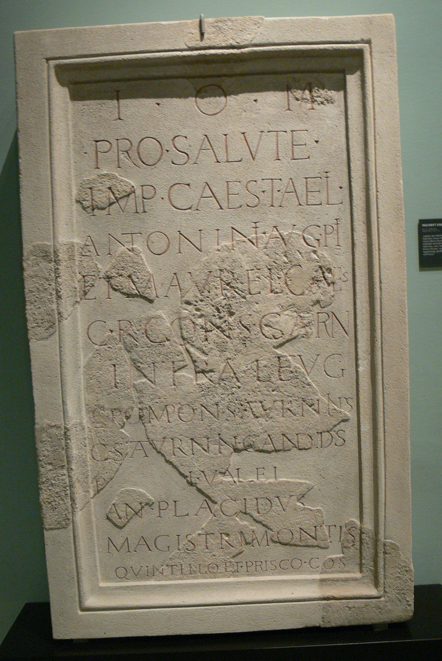 Museum Carnuntinum ( Lower Austria ). Dedication ( 159 AD ) to Jupiter and the emperors Antoninus Pius and Marc Aurel by citizens of Carnuntum.